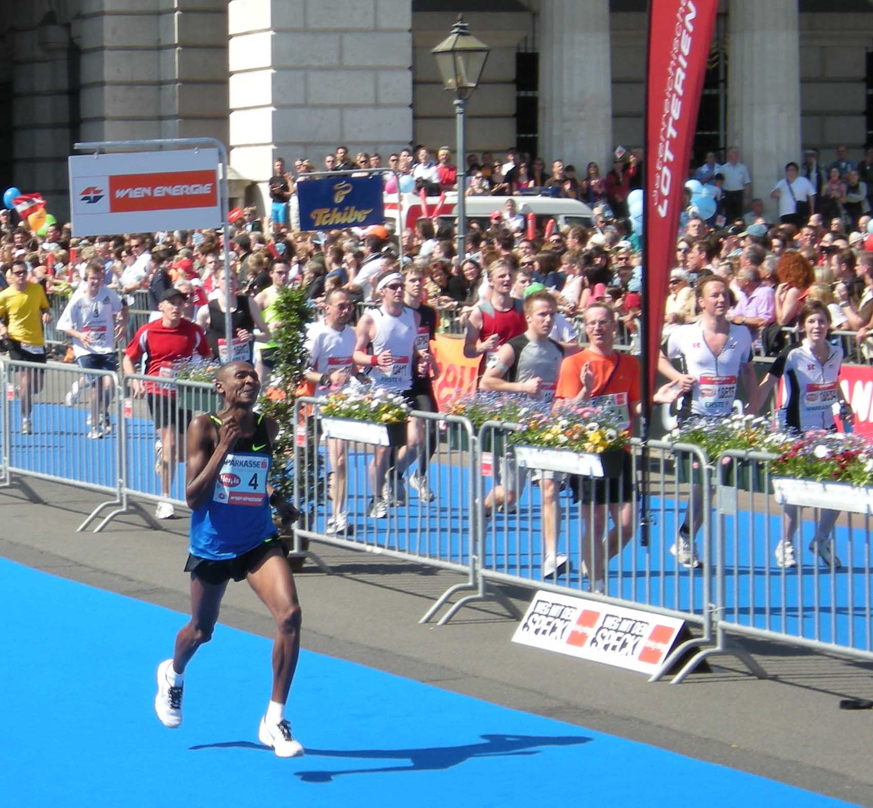 Vienna City Marathon 2009; on details, see filename or official Note: Camera time is set on UTC, which is local time -2, and might be wrong ~ +/-1_min.